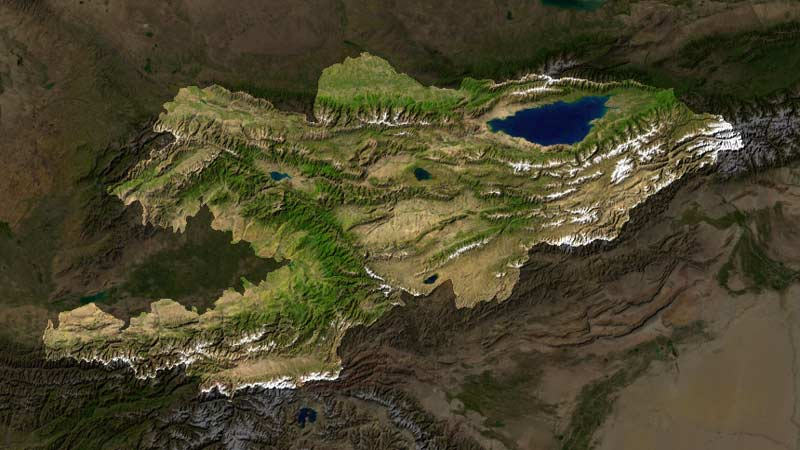 Image of Kyrgyzstan based on a satellite picture.